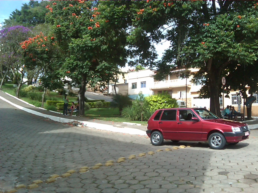 Manoel Teodoro Square in the neighborhood of the Rosário, Andrelândia, Minas Gerais, Brazil.